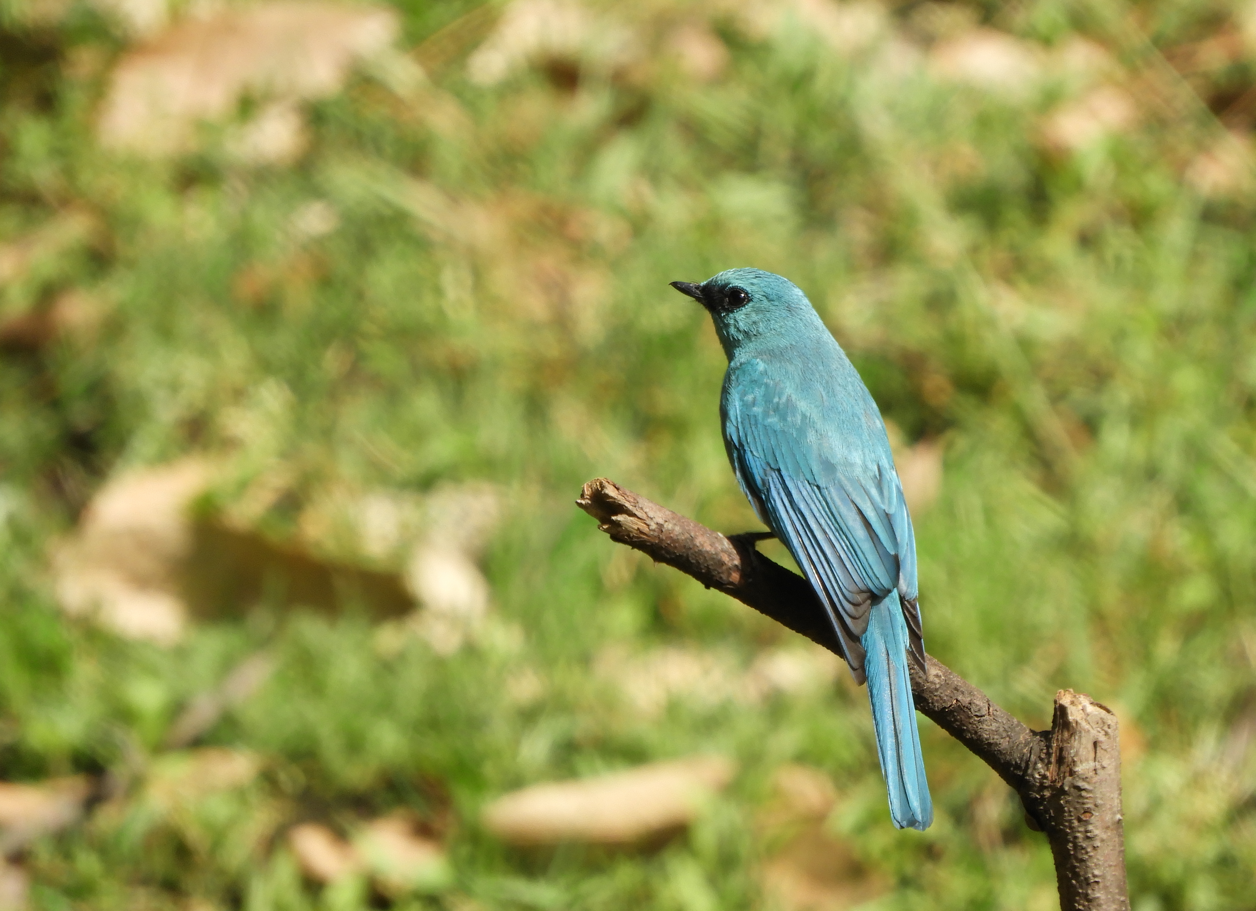 Verditer Flycatcher (Eumyias thalassina) at Sattal